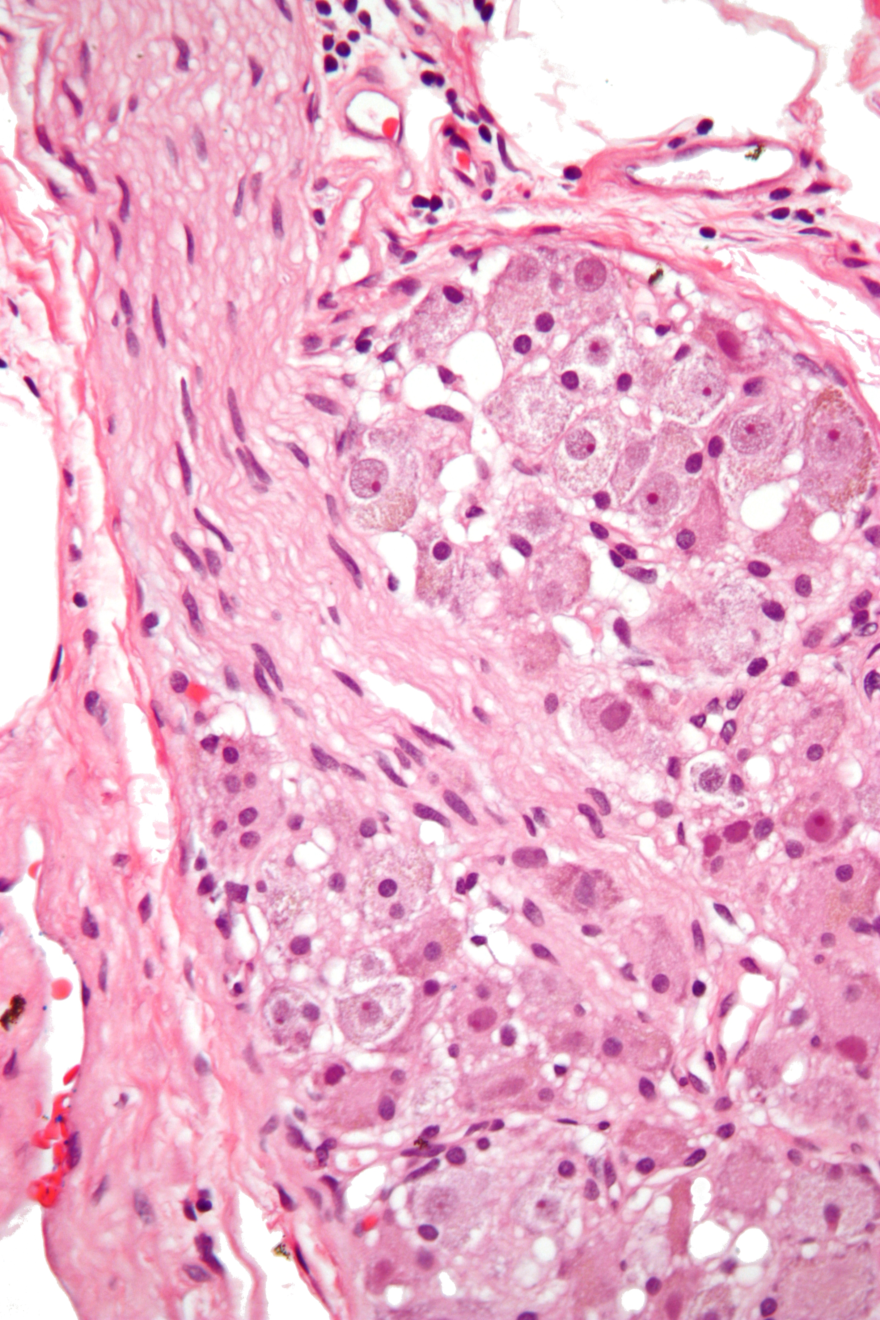 High magnification micrograph of a ganglion. Prostatectomy specimen. H&E stain. Related images Intermed. mag. High mag. Very high mag.